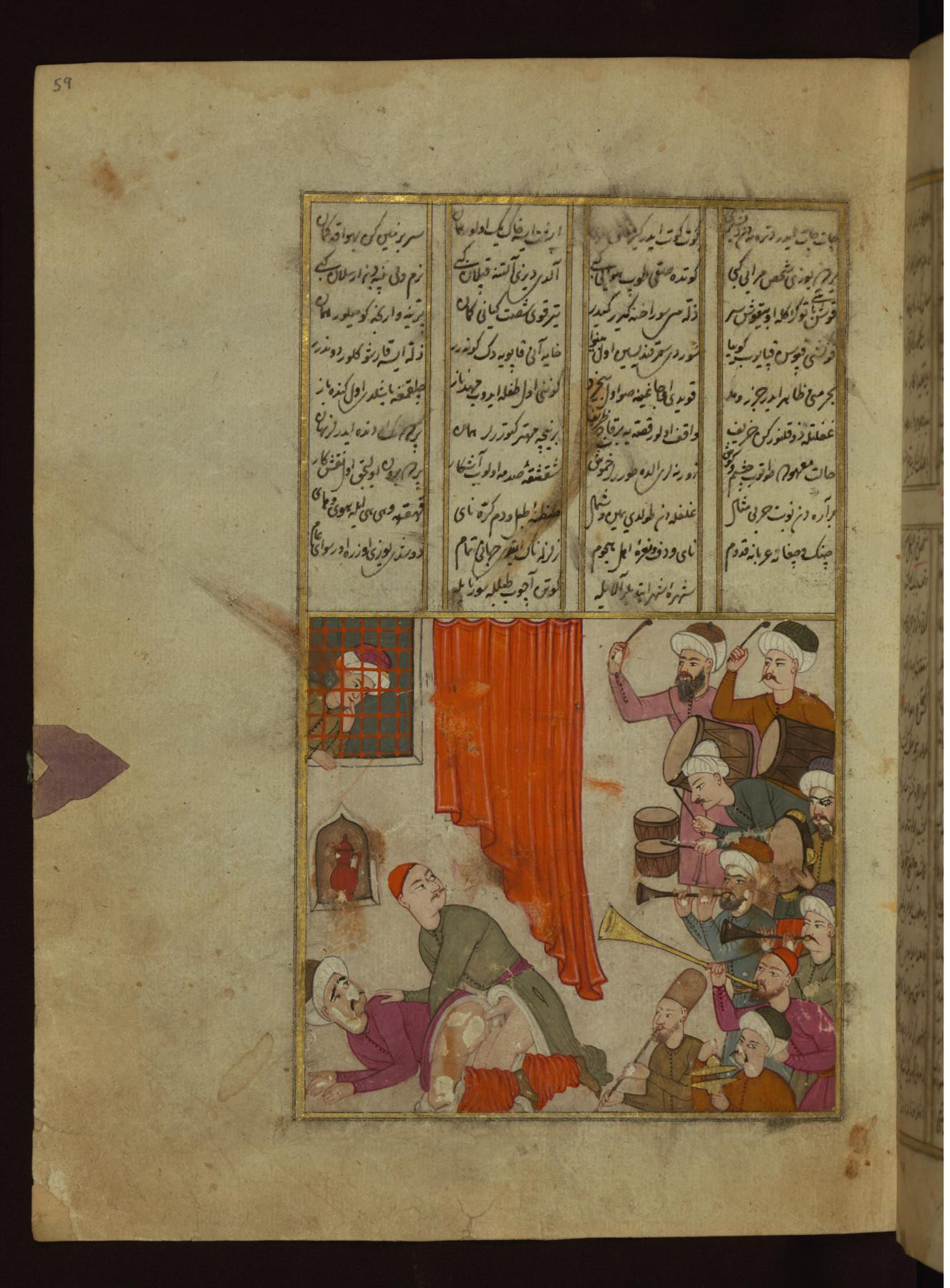 Khamsa by Atai (Walters MS 666)